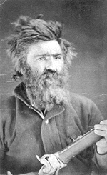 John Jeremiah Johnson